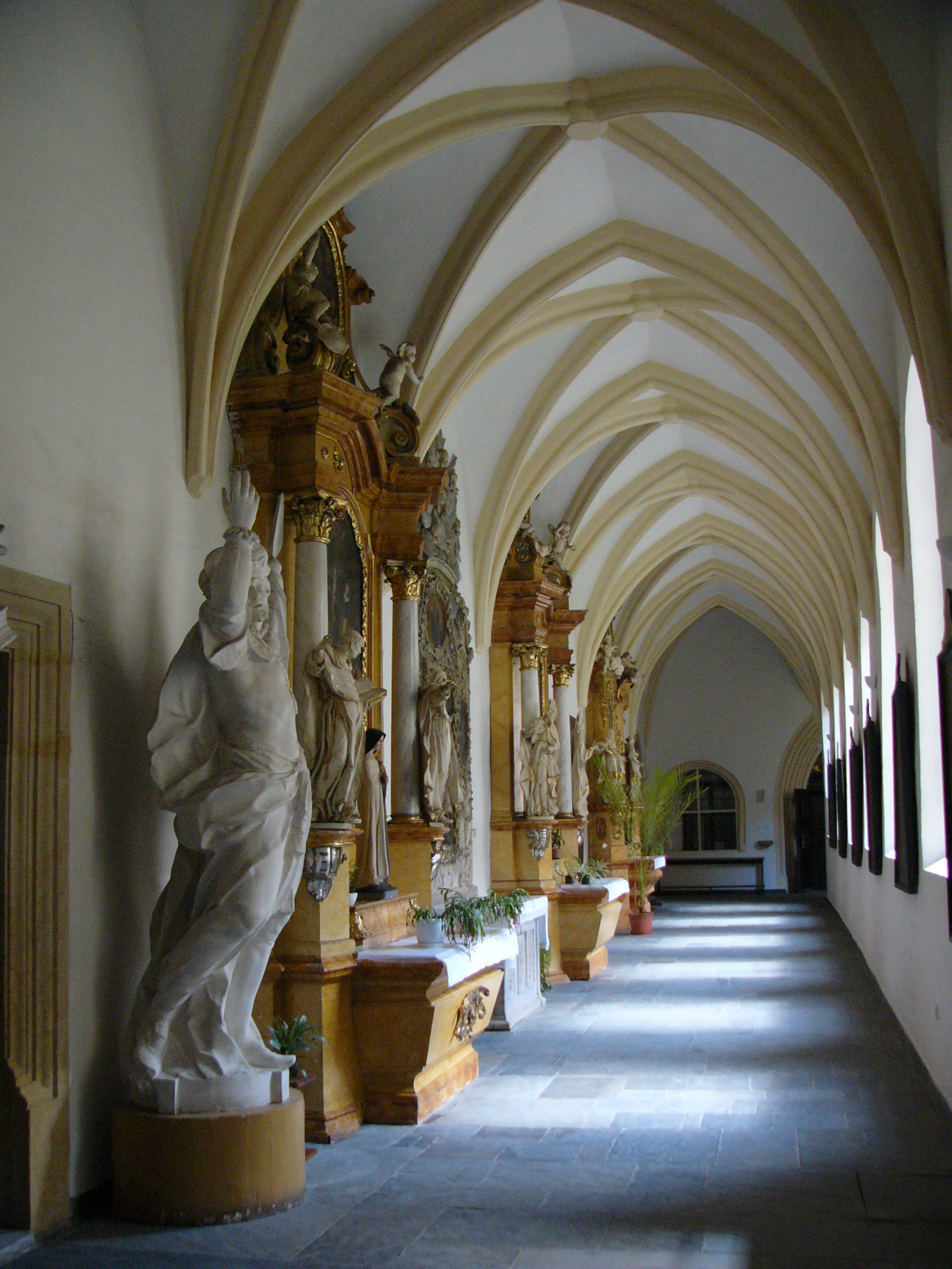 Cloister in church of saint Michal in Olomouc (Czech Republic).